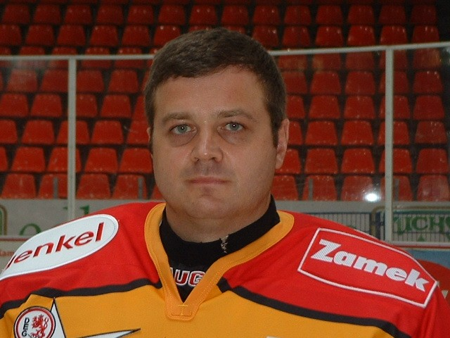 Ice-Hockey player Andrej Trefilow (RUS), then playing for DEG Metro Stars (GER)